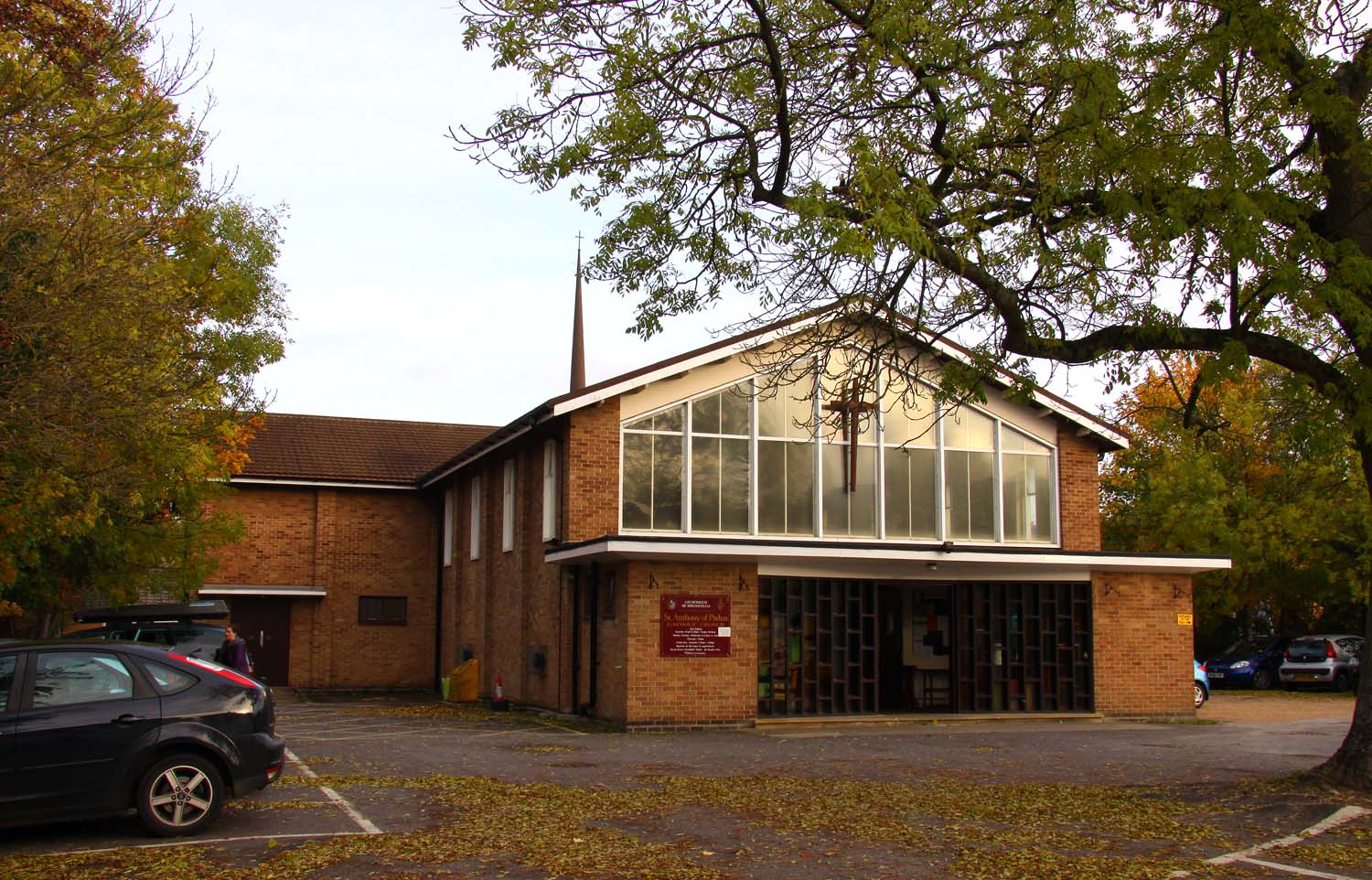 Roman Catholic church of St Anthony of Padua, Headley Way, Headington, Oxford, seen from the west